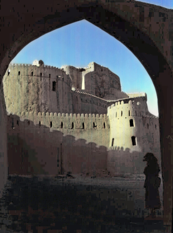 Bam citadel, Iran.